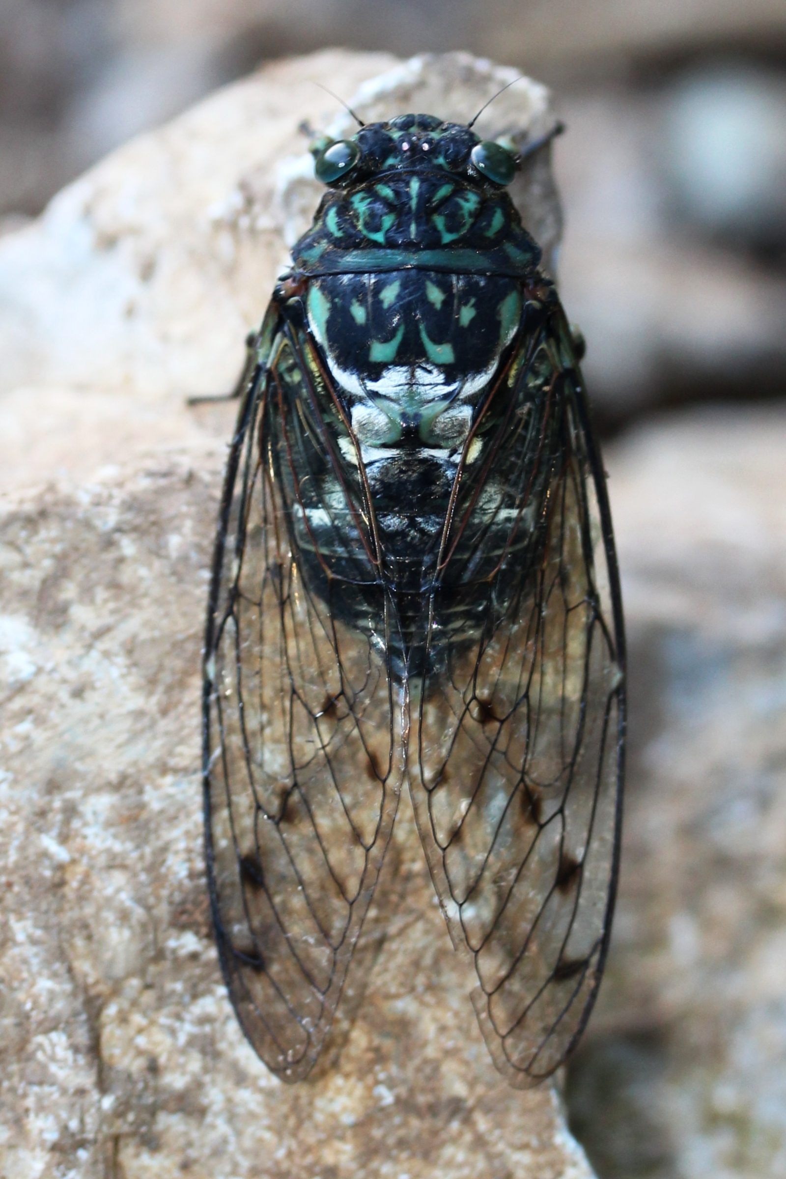 Oncotympana maculaticollis in Mount Ibuki